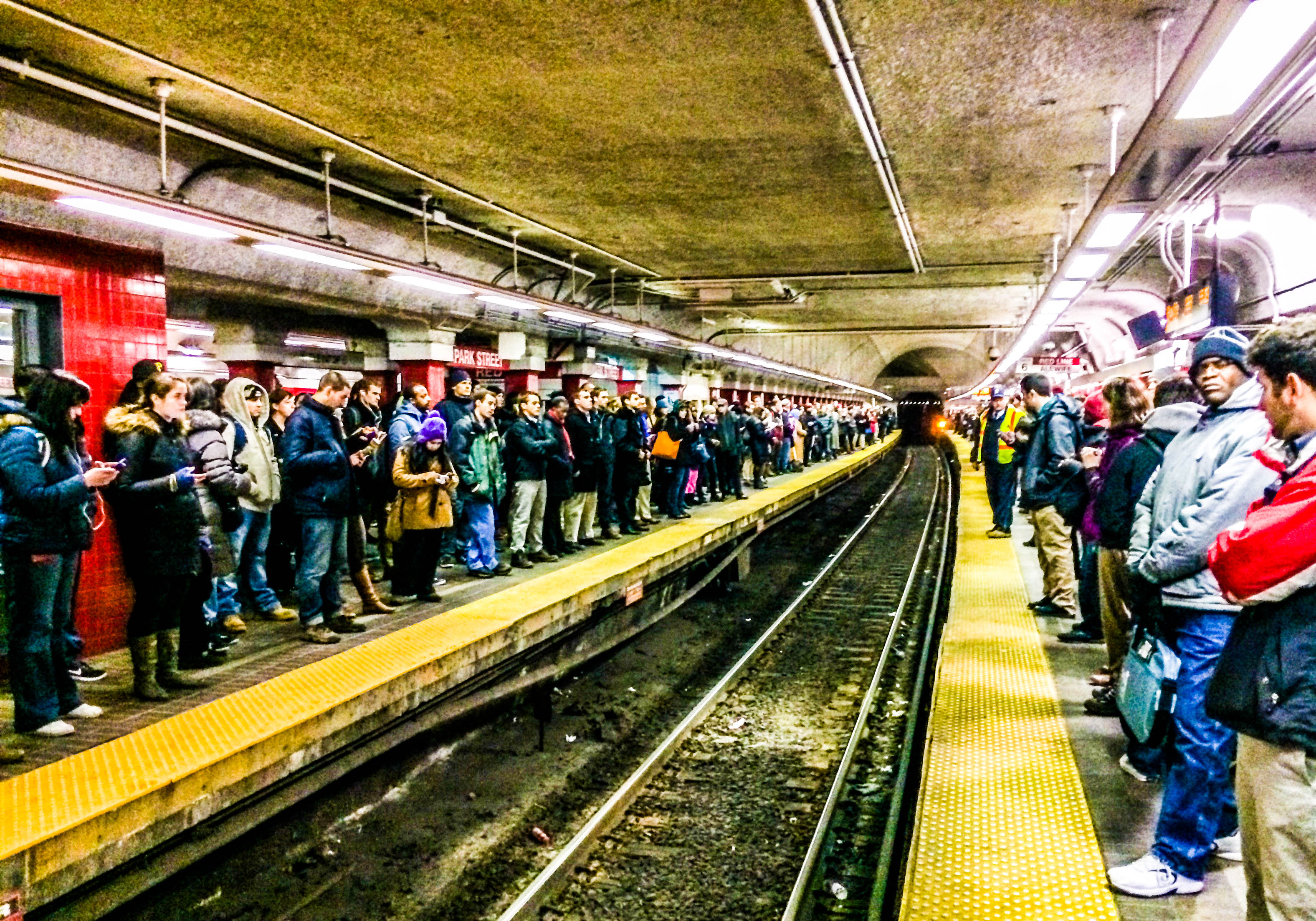 Passengers wait for a northbound train at Park Street station